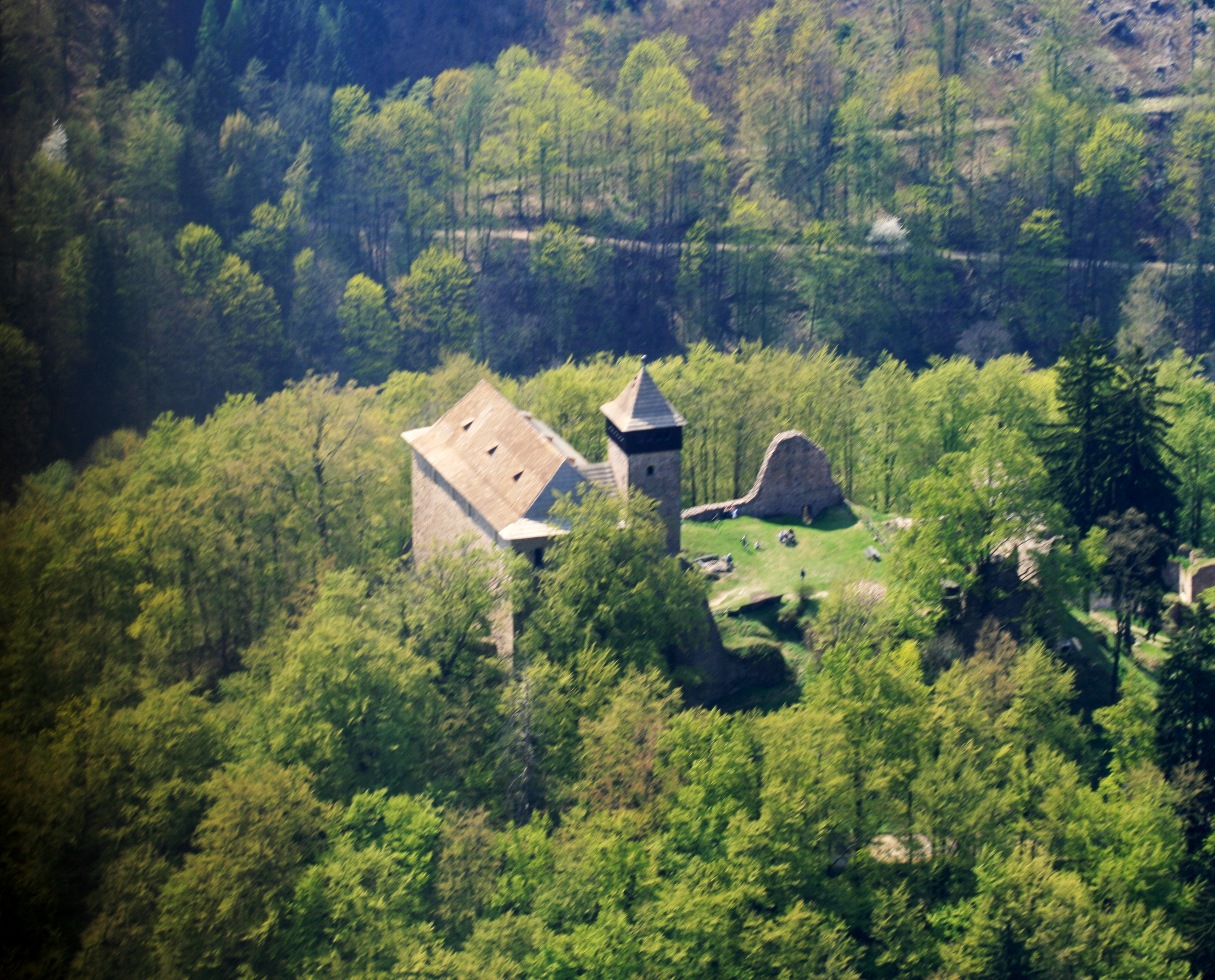 Ruins of old Litice Castle from air, eastern Bohemia, Czch republic